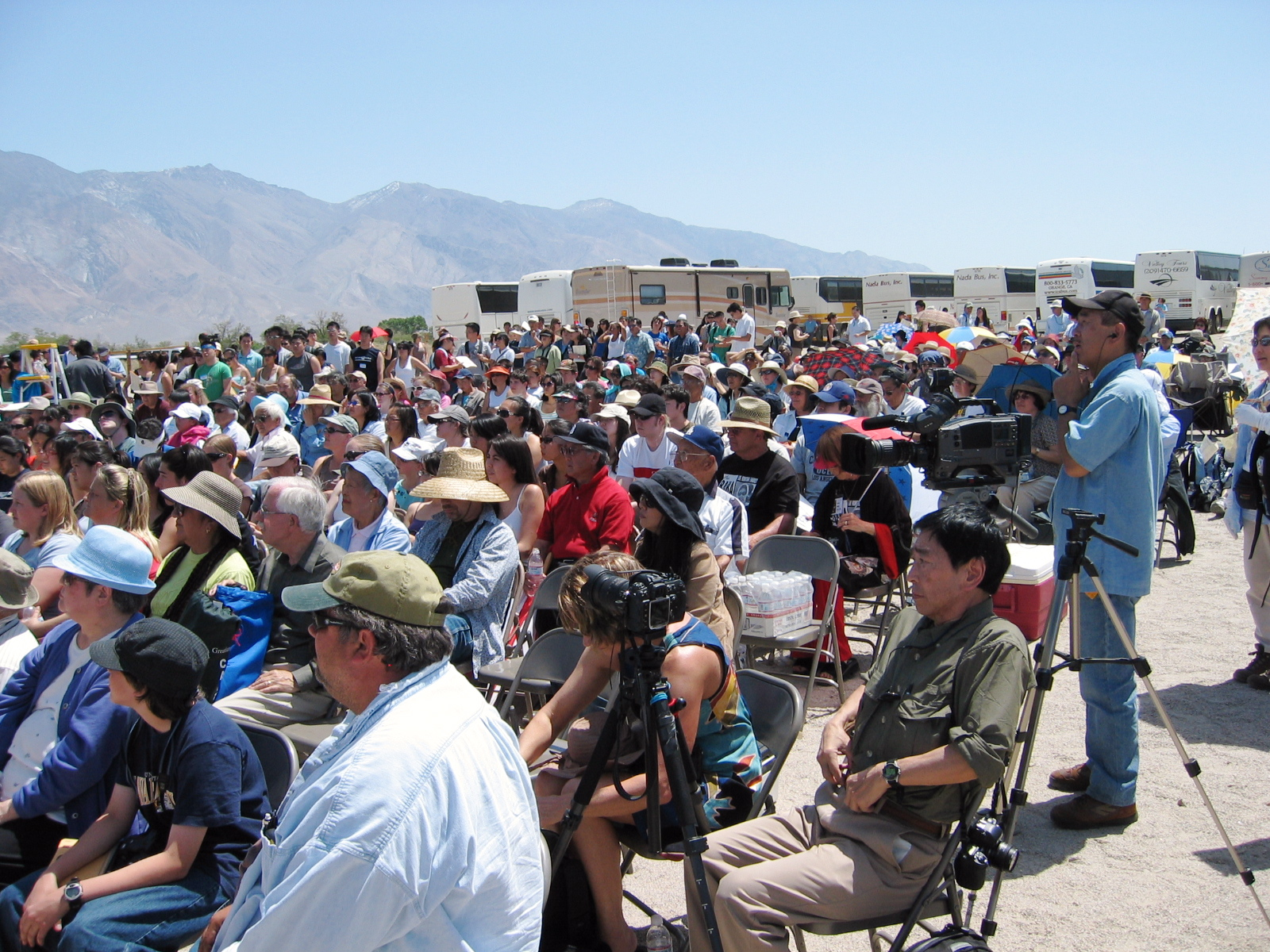 Approximately 1,100 people from all ages and all walks of life attended the 38th Annual Manzanar Pilgrimage, April 28, 2007